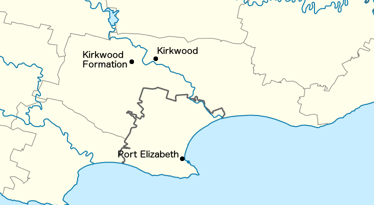 Map locating the Early Cretaceous Kirkwood Formation of South Africa, labelling the cities Kirkwood and Port Elizabeth. Derived from File:South Africa Eastern Cape location map.svg with locations after "New information on Nqwebasaurus thwazi, a coelurosaurian theropod from the Early Cretaceous Kirkwood Formation in South Africa".